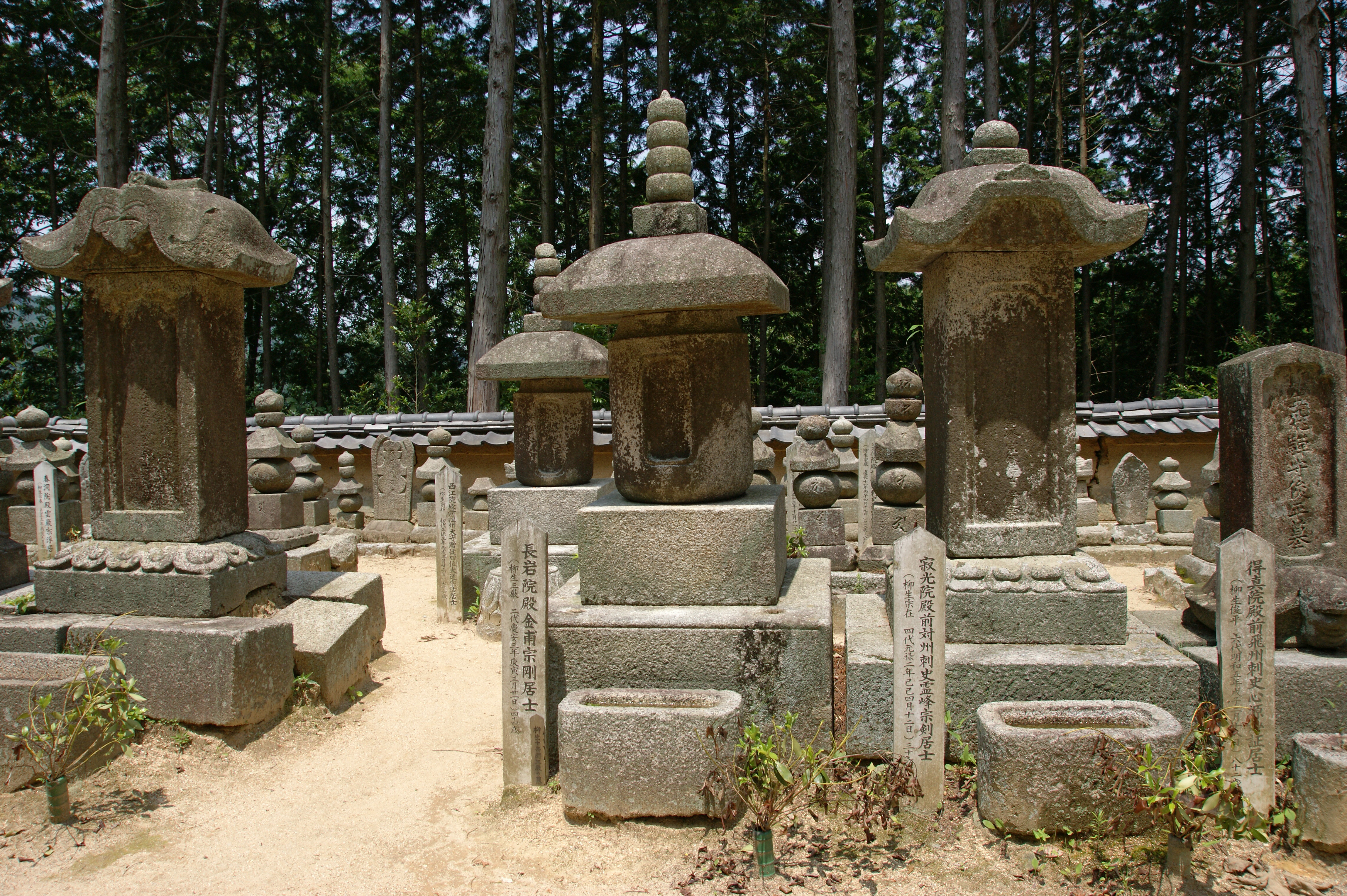 Hotokuji in Nara, Nara prefecture, Japan